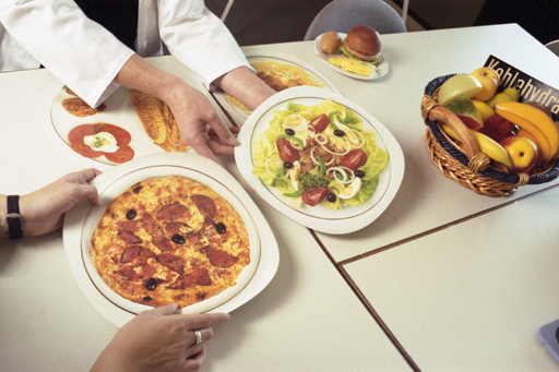 dietetics